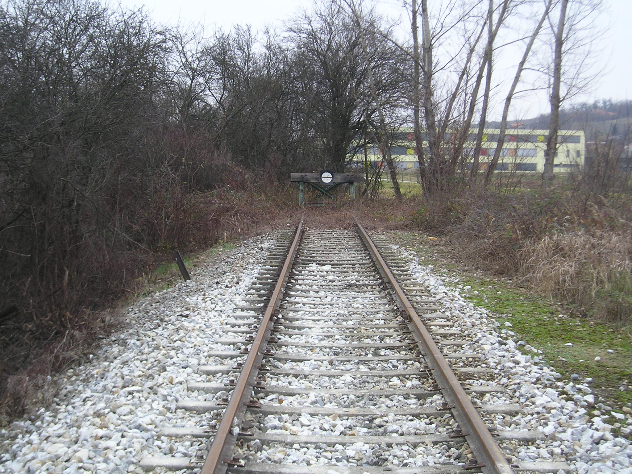 Lendava, Slovenia - end of the Čakovec - Lendava railway line (connection with Rédics in Hungary was discontinued in 1945) north of the Lendava train station